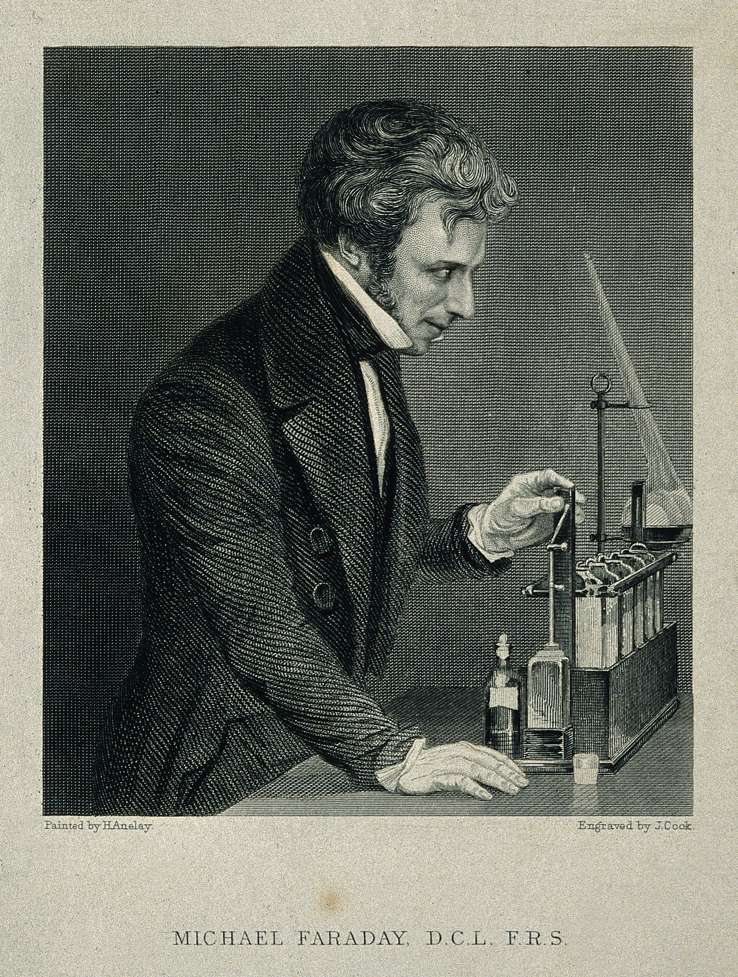 Michael Faraday. Line engraving by J. Cook after H. Anelay. Iconographic Collections Keywords: portrait prints; engravings; Michael Faraday